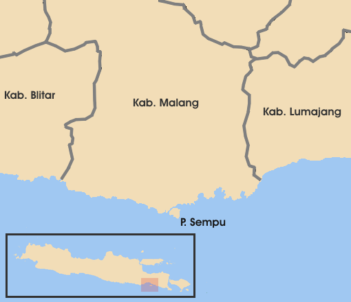 Location of Sempu Island